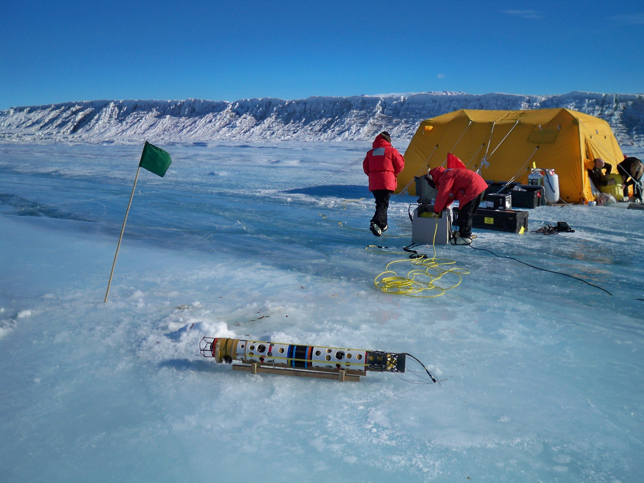 The SCINI ROV, a special vehicle designed at Moss Landing Marine Lab, sits on the ice near Heald Island in Antarctica. The skinny, torpedo shaped body makes it possible to drop the vehicle through an 8" hole in the ice.